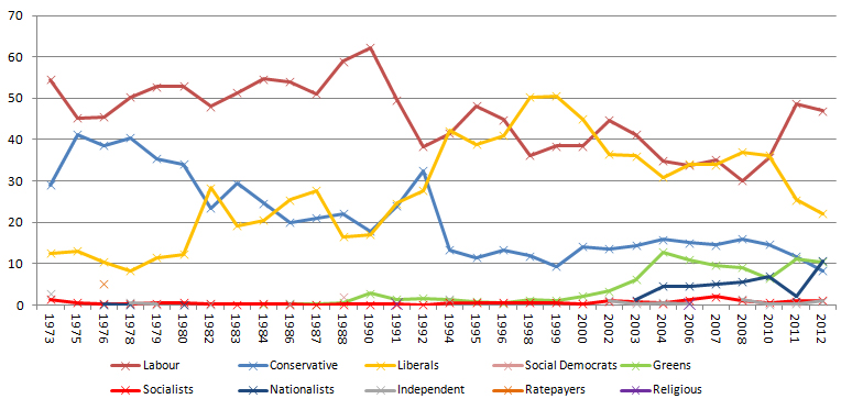 A graph showing the popular vote share for each political party in local elections in Sheffield, UK, 1973–2012. Labour: Labour, Independent Labour Conservative: Conservative, Independent Conservative Liberals: Liberal, SDP-Liberal Alliance, SLD, Liberal Democrats Social Democrats: SDP (1979), SDP (1988) Greens: Ecology, Christian Ecology, Green, Independent Green Socialists: CPGB, Worker's Revolutionary, Revolutionary Communist, Communist League, Militant Labour/Socialist Party, Socialist Alliance, Socialist Labour, SWP, Democratic Socialist Alliance, Left List, Respect, Socialist Equality, TUSC Nationalists: British Nationalist, British Movement, National Front, BNP, English Democrats, UKIP Independent: Independents Ratepayers: Ratepayers Religious: Islamic, Christian People's.